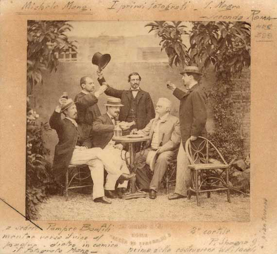 Group of artists who are toasting photographed (before 1870) by Michele Mang. On the back stamp: Michele Mang & C, Piazza di Spagna 9 Rome - Italy.